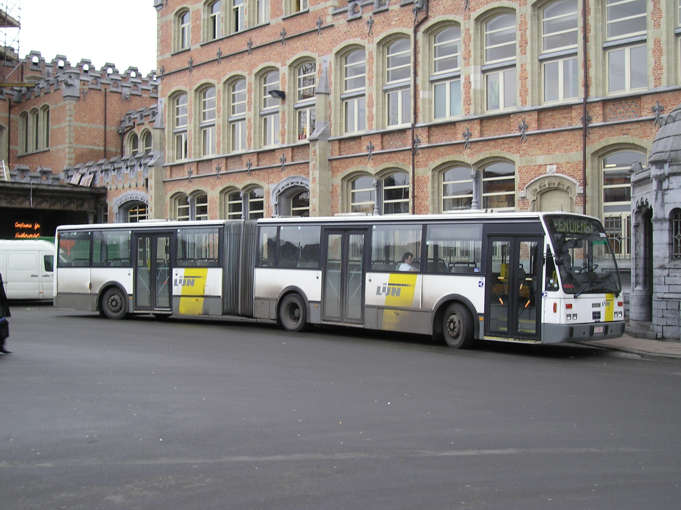 Van Hool AG 700 in Ghent, Belgium